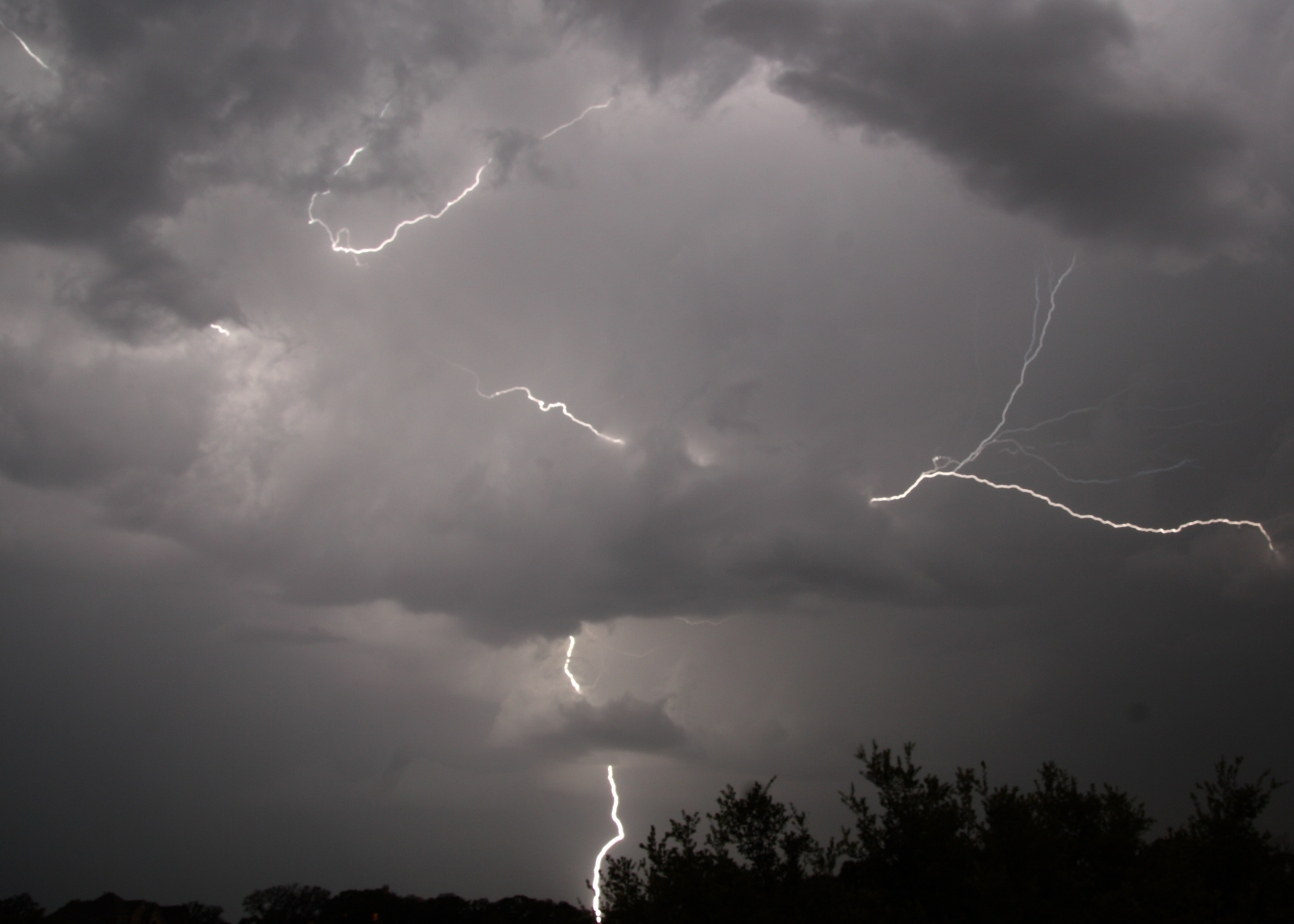 Lightning 2